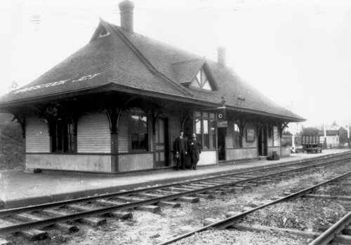 Aroostook heritage station, New Brunswick.